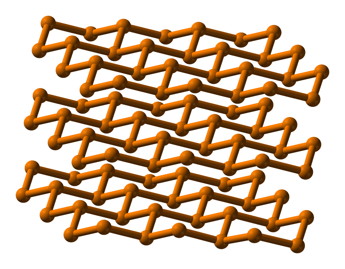 Ball-and-stick model of part of the crystal structure of rhombohedral black phosphorus. Concept from Oxford Chemistry Primer #51: N. C. Norman (1997) Periodicity and the s- and p-Block Elements, Oxford University Press, p. 43 ISBN: 0-19-855961-5. Model constructed in CrystalMaker 8.1. Image generated in Accelrys DS Visualizer. for interactive Jmol versions.